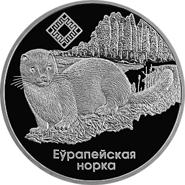 Environmental protection. Commemorative coins "Chyrvonym Bor" ("Red Forest ")